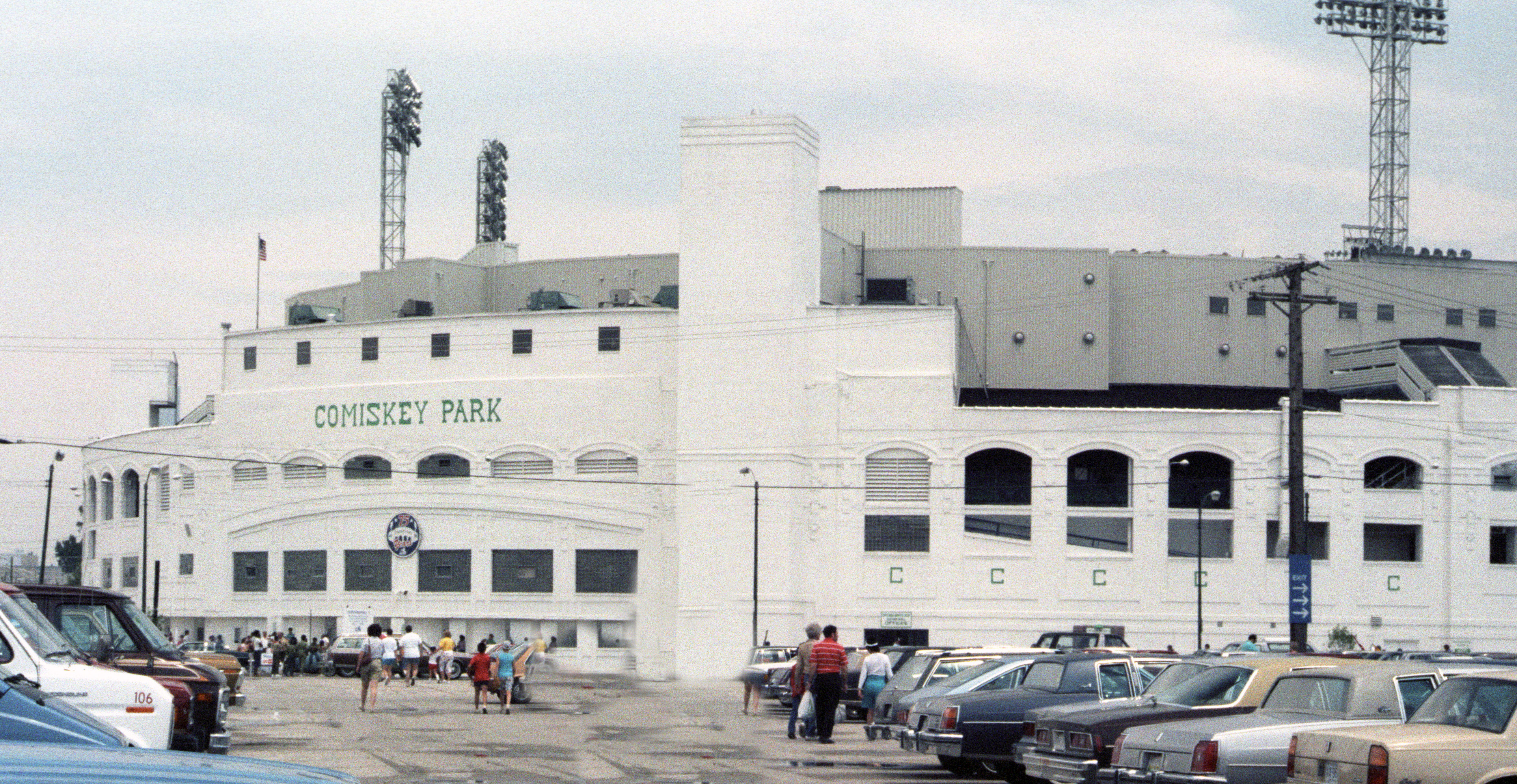 Outside of Old Comiskey Park Chicago 1986